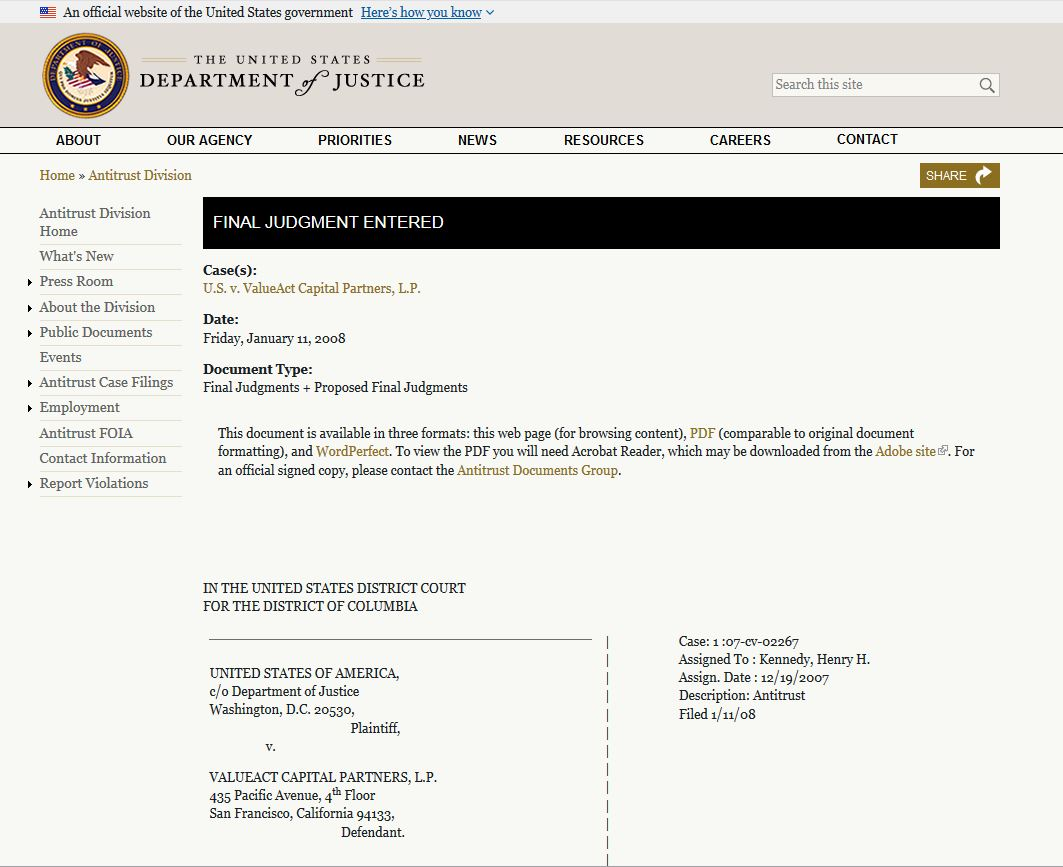 Screen image of a United States Department of Justice website showing a court order issued in January 2008 that is available only web page, PDF, or WordPerfect formats. Illustrates the Justice Department's ongoing use of WordPerfect.